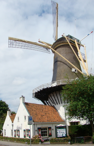 Windmill in Wassenaar